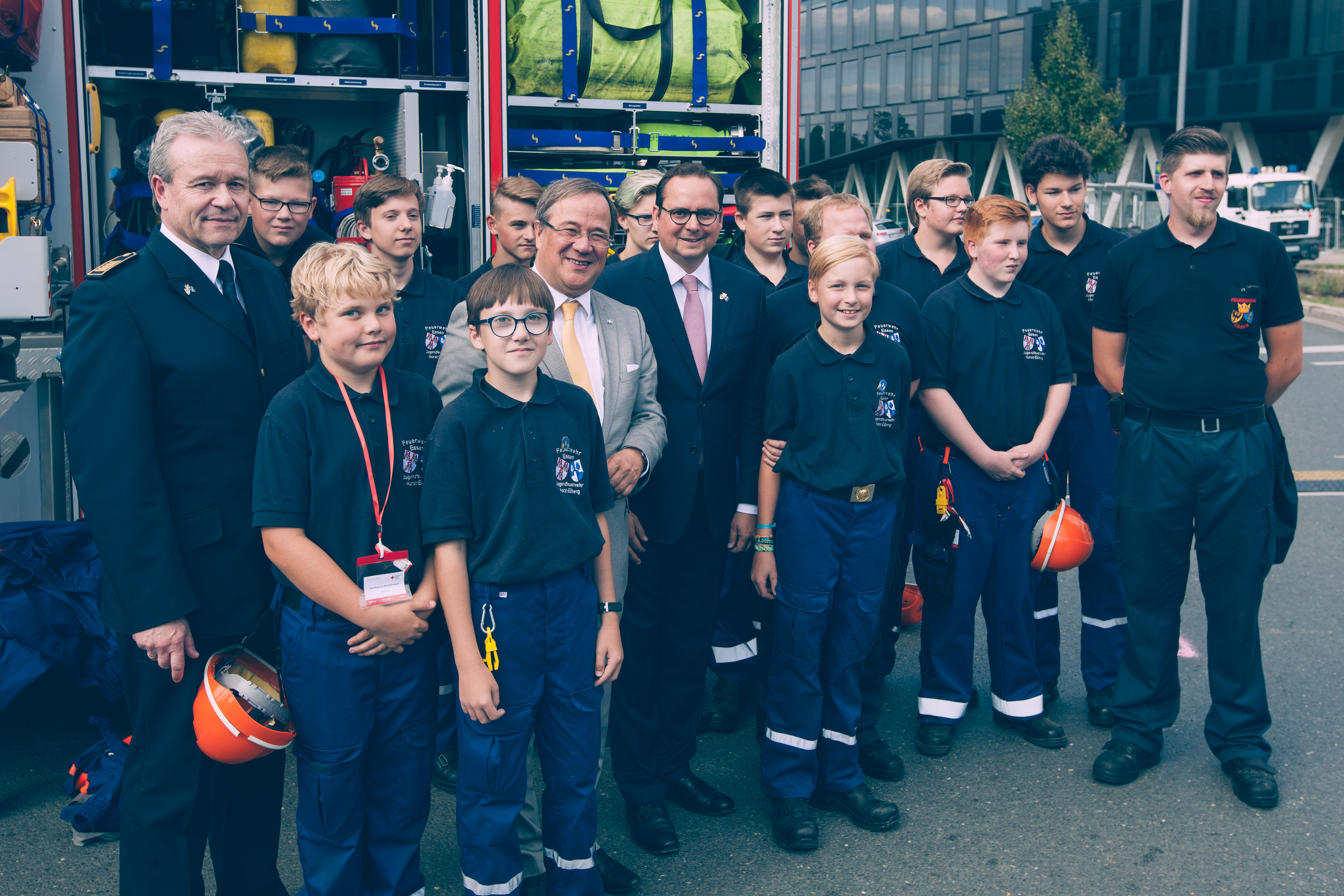 Ulrich Bogdahn, fire chief of the city of Essen, Armin Laschet (CDU), prime minister of NRW, and Thomas Kufen (CDU), mayor of the city of Essen at NRW-Tag (2018), Berliner Platz, Essen (DEU) /// leokreissig.de for Wikimedia Commons